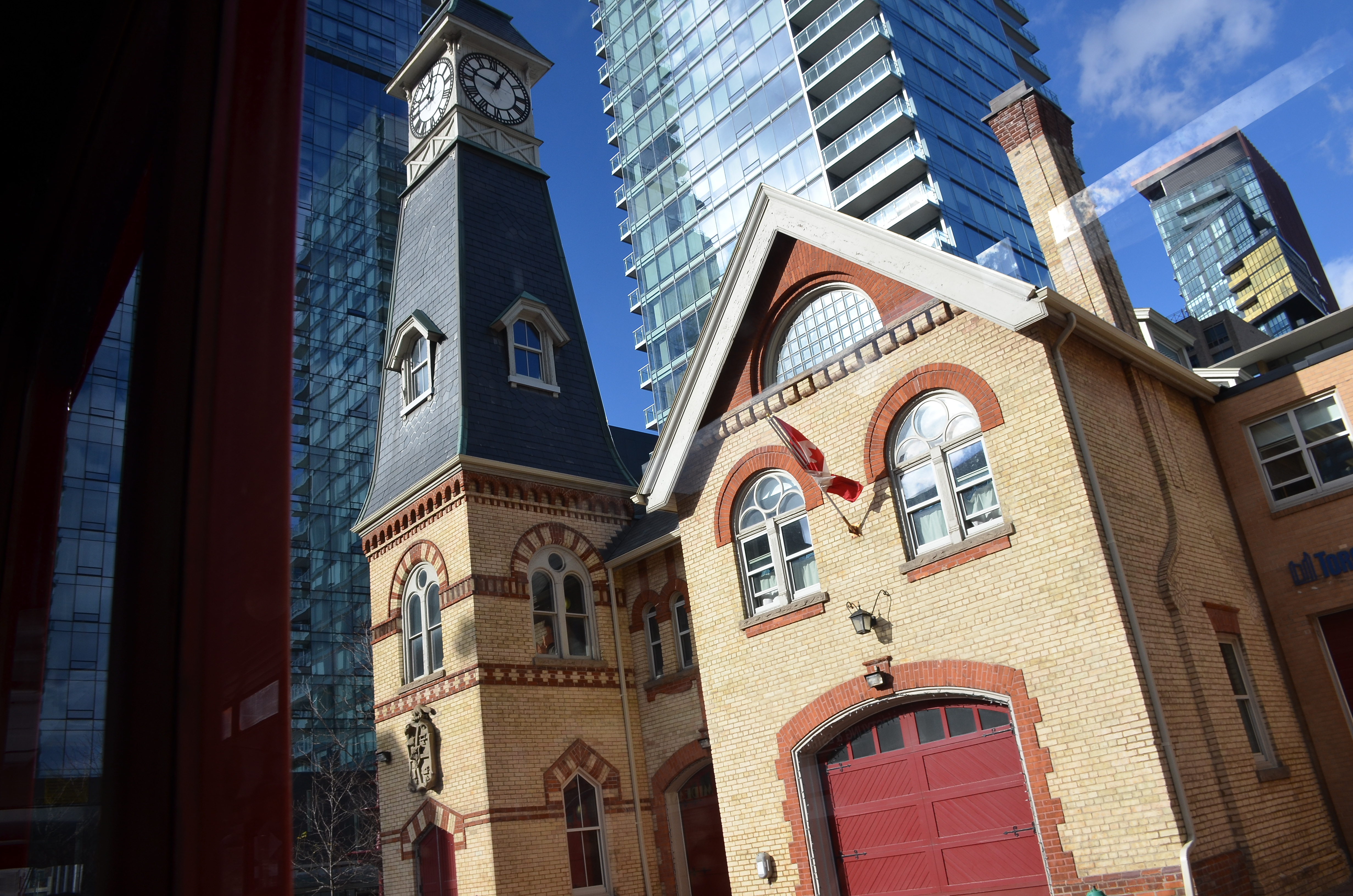 Historic fire station in the historic district of Old Toronto. This is Station 312, the oldest active station operated by Toronto Fire Services The modern one is situated alongside. The building in the immediate foreground was once the shed for the fire truck, but the doorway is too small for today's modern fire trucks. So rather than destroy the heritage building, they chose to leave it as it is and build a new shed for the engines alongside. Wise move. (Toronto, Canada, Nov.2015)